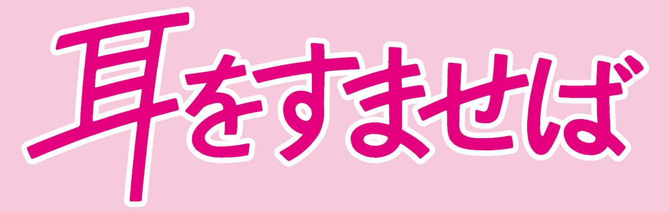 Japanese DVD title of the film Whisper of the Heart.